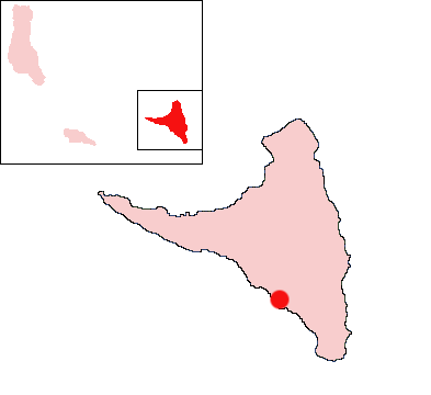 Moya, Anjouan, Comoros Location Map; created with the GIMP. Made by User:Acntx.